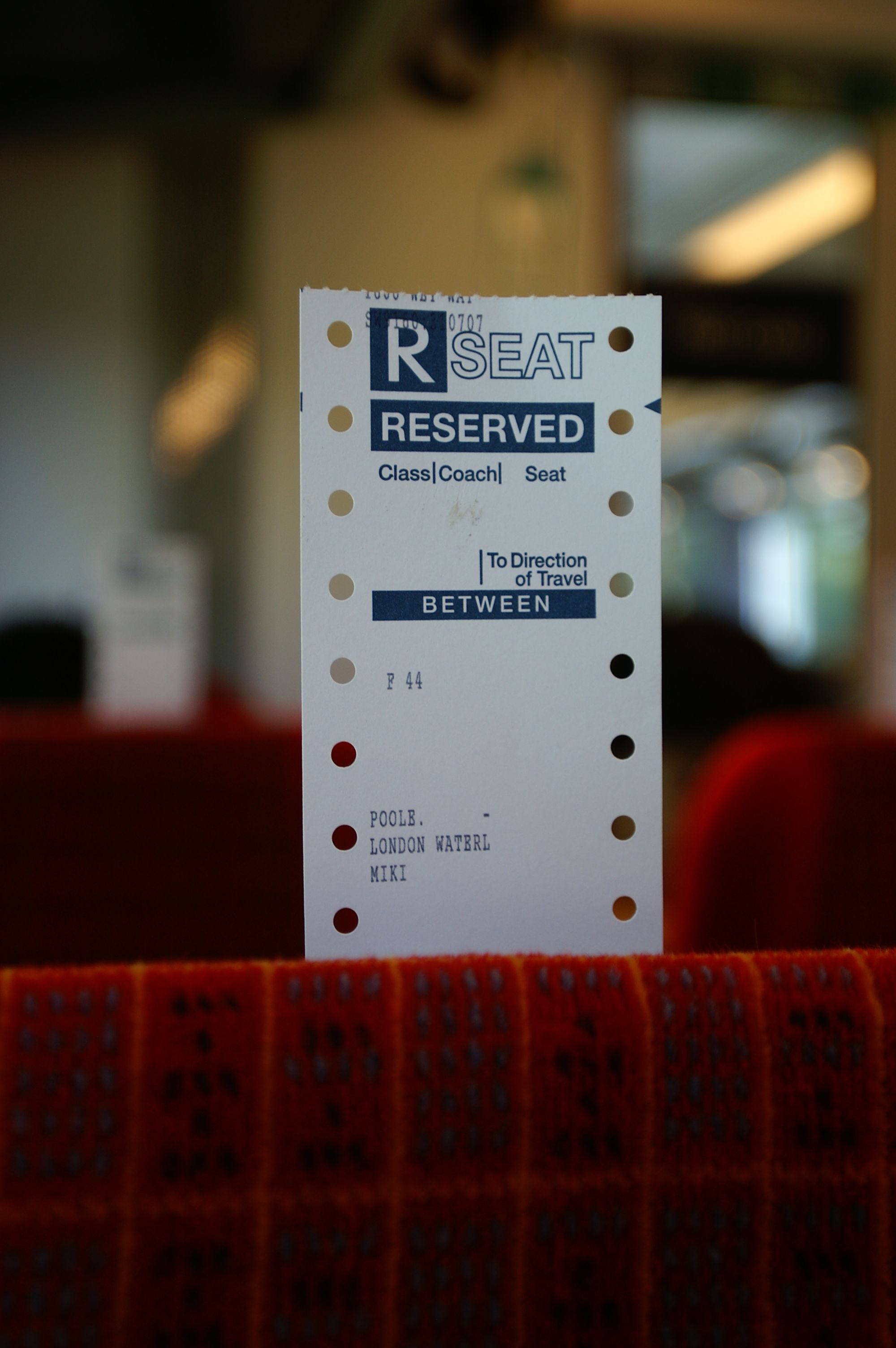 (2007/07/31 England, UNITED KINGDOM)